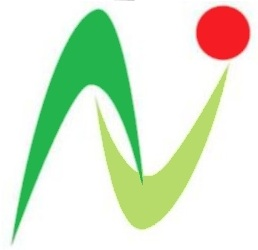 Nakagawa Tochigi chapter